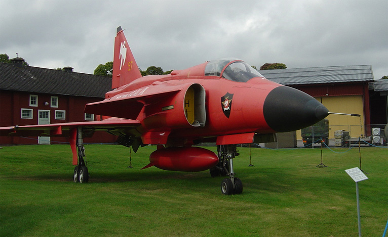 SAAB AJS 37 Viggen, Special red version, Swedish Air Force Museum, Malmslätt, Linköping, Sweden, 2005